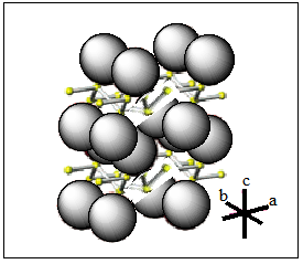 OsB2